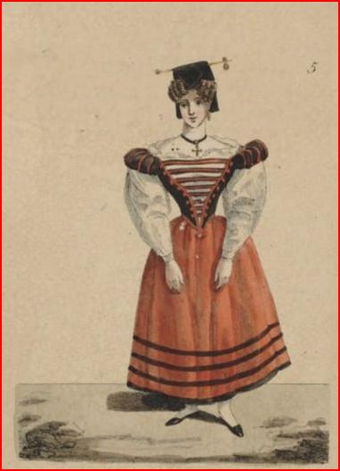 Mme.Prader in the role of Georgette in 'Le Roi et le batelier' (1827)